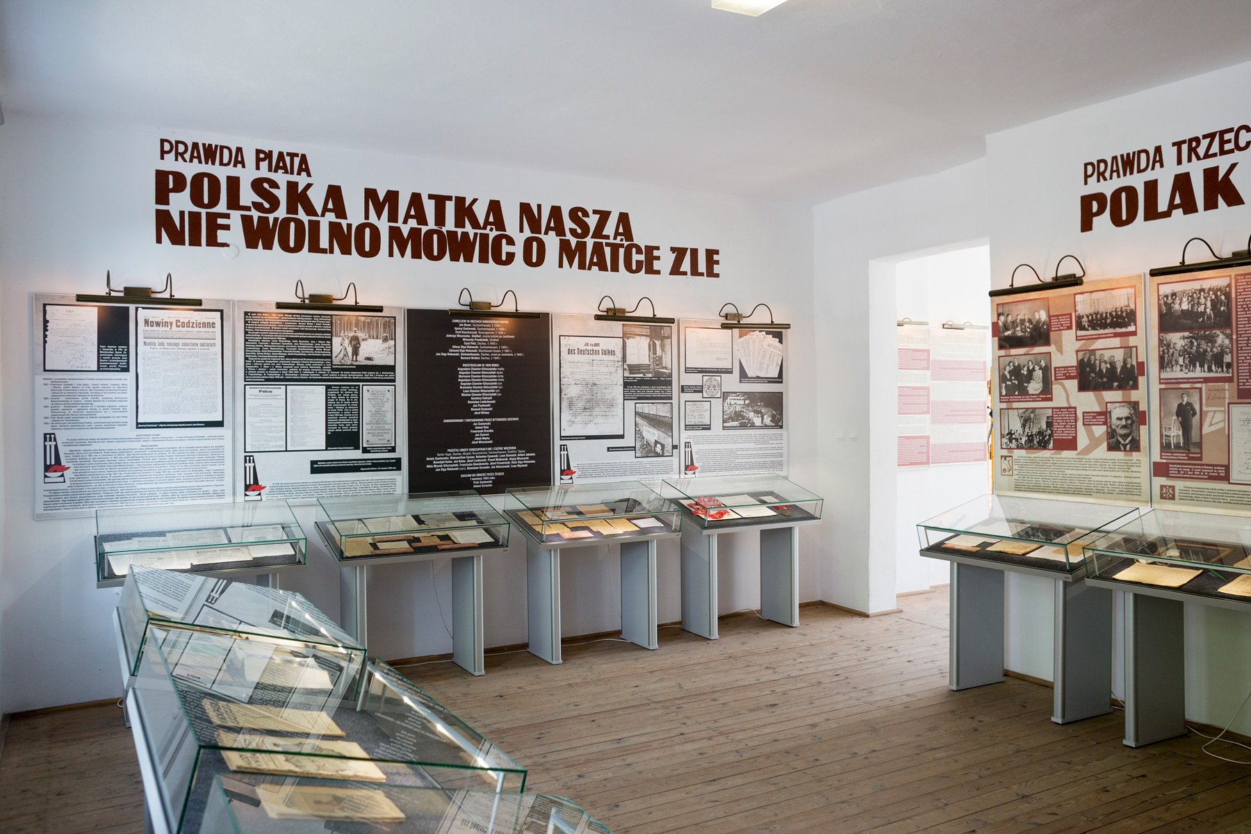 One of the exhibition halls